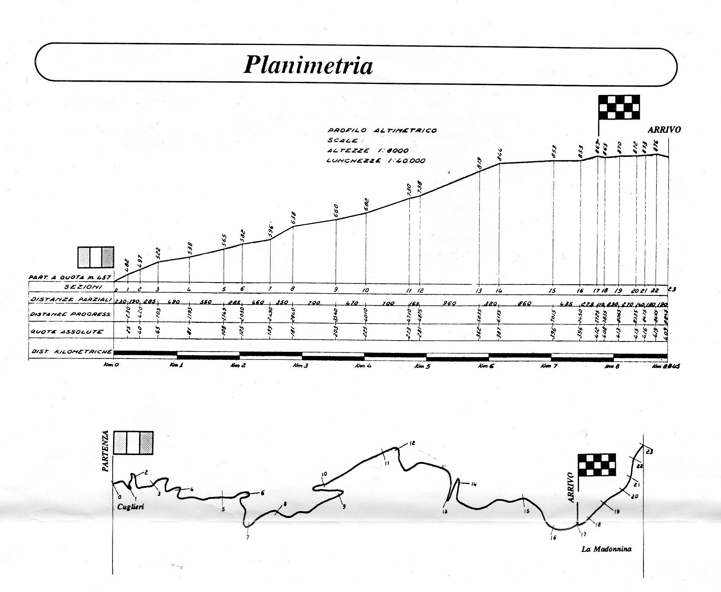 Cuglieri-La Madonnina hillclimbing race map and altimetry